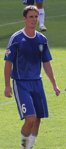 Dmitry Michkov